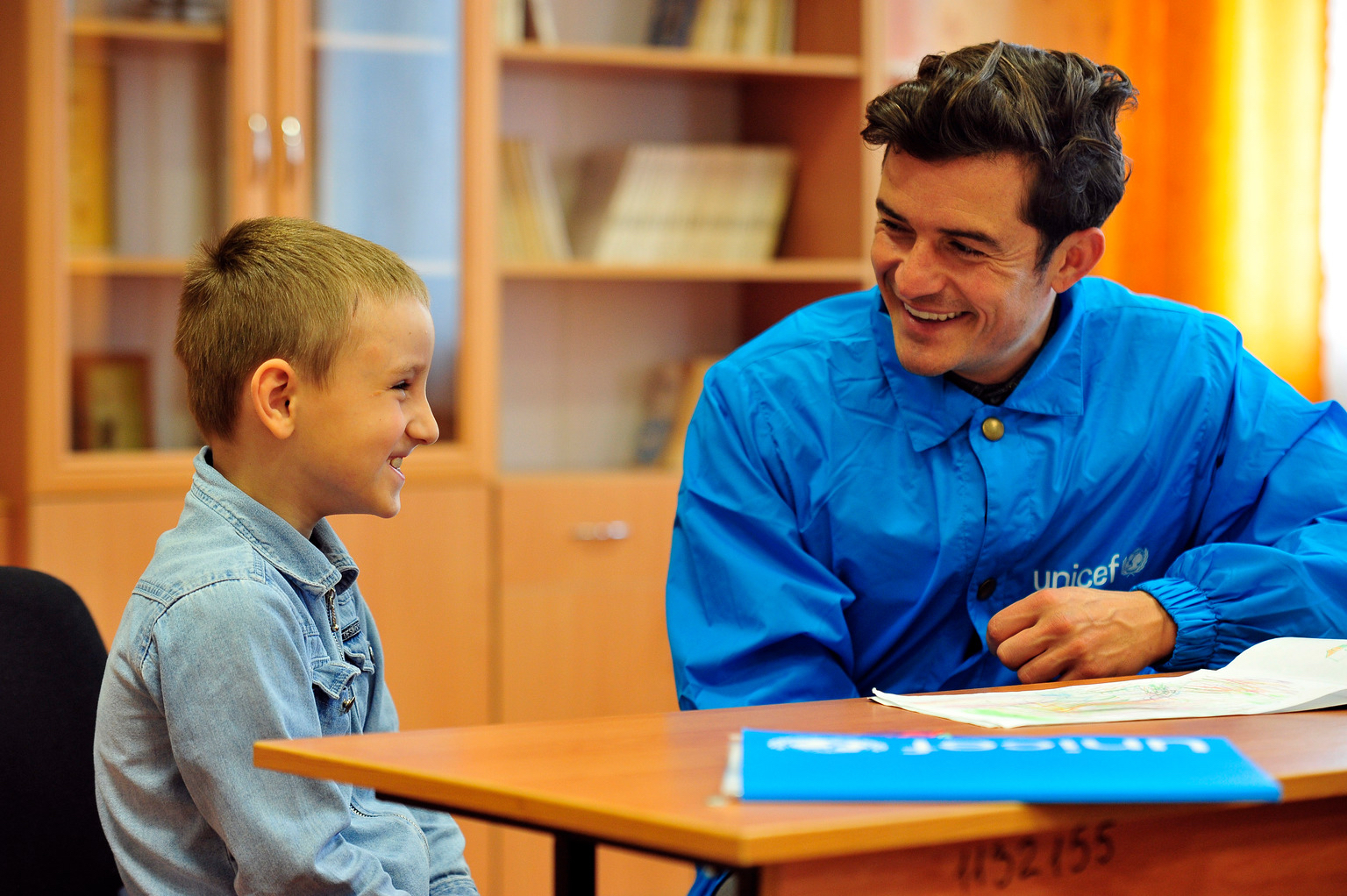 Bloom: “Now, after surviving some of the most terrifying experiences life could possibly throw at them, all they want is to get back to the safety and routine of school and plan for their futures.” UNICEF Ukraine is planning to repair additional 60 schools and 80 kindergartens in 2016, as well as provide psychosocial support and mine-risk education to 400,000 children affected by the crisis.